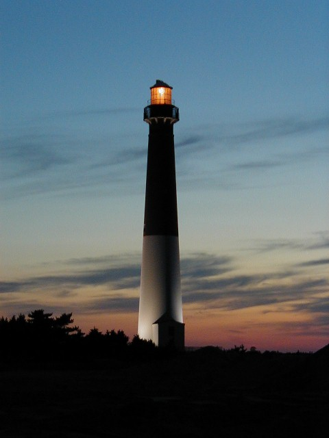 Barnegat Lighthouse in Barnegat Light, Long Beach Island, New Jersey